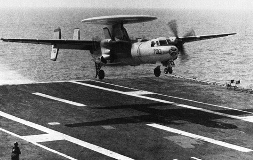 A U.S. Navy Grumman E-2B Hawkeye from Carrier Airborne Early Warning Squadron 124 (VAW-124) "Bullseye Hummers" is landing aboard the aircraft carrier USS America (CVA-66). VAW-124 was assigned to Carrier Air Wing 8 (CVW-8) aboard the America for a deployment to the Mediterranean Sea from 6 July to 16 December 1971.